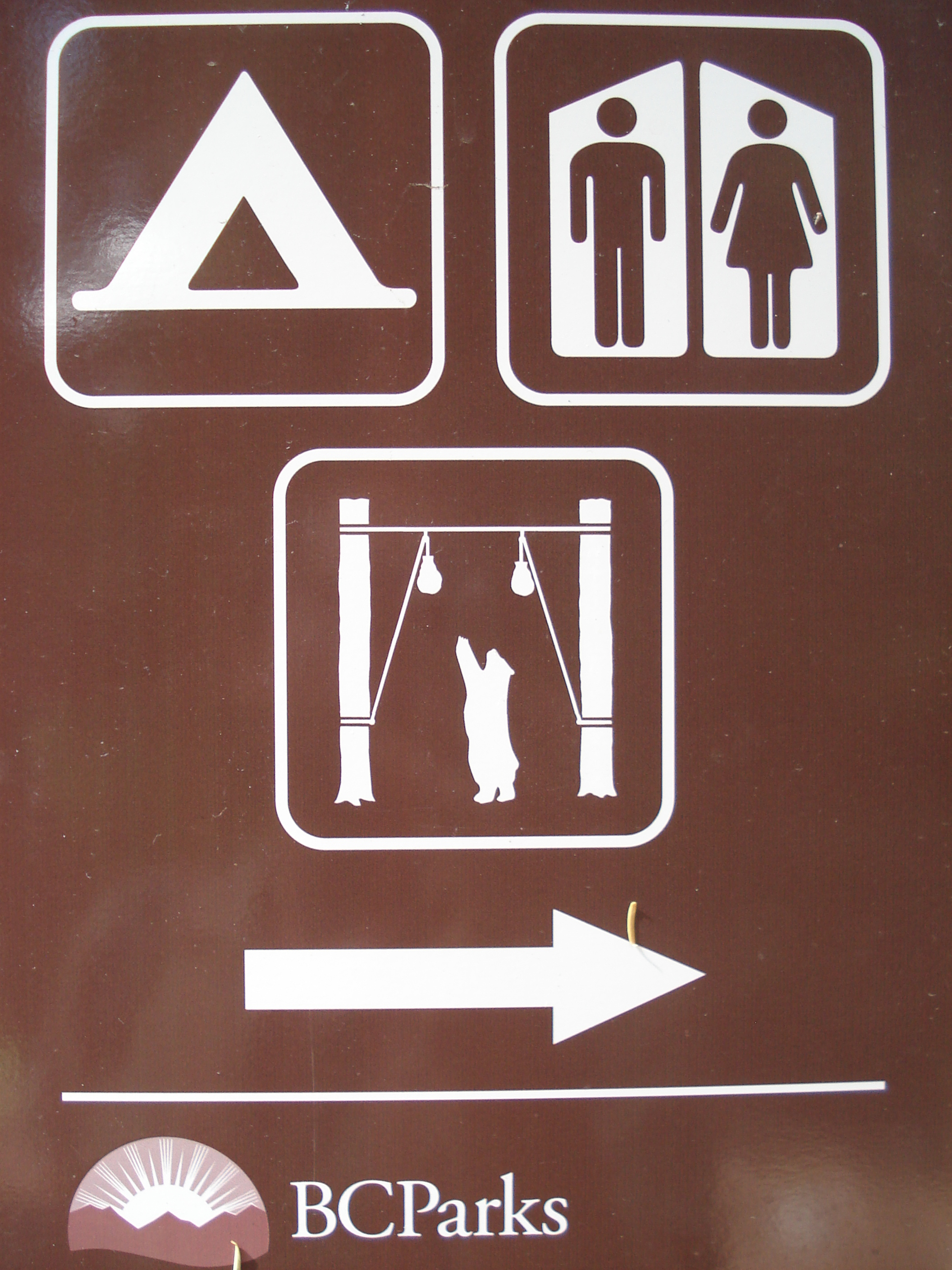 A sign directing campers to the location of secure bear caches, restrooms and campsites.